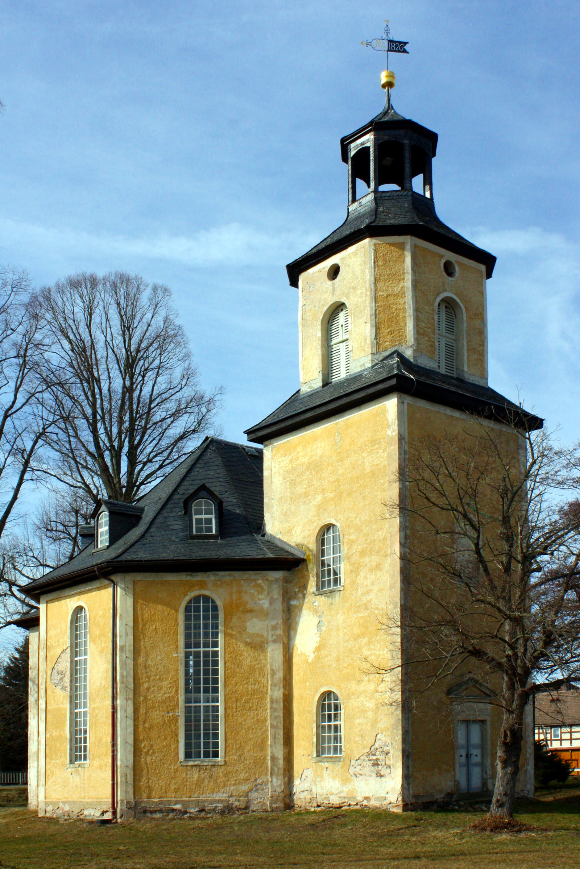 Church in Mittelpöllnitz near Gera/Thuringia